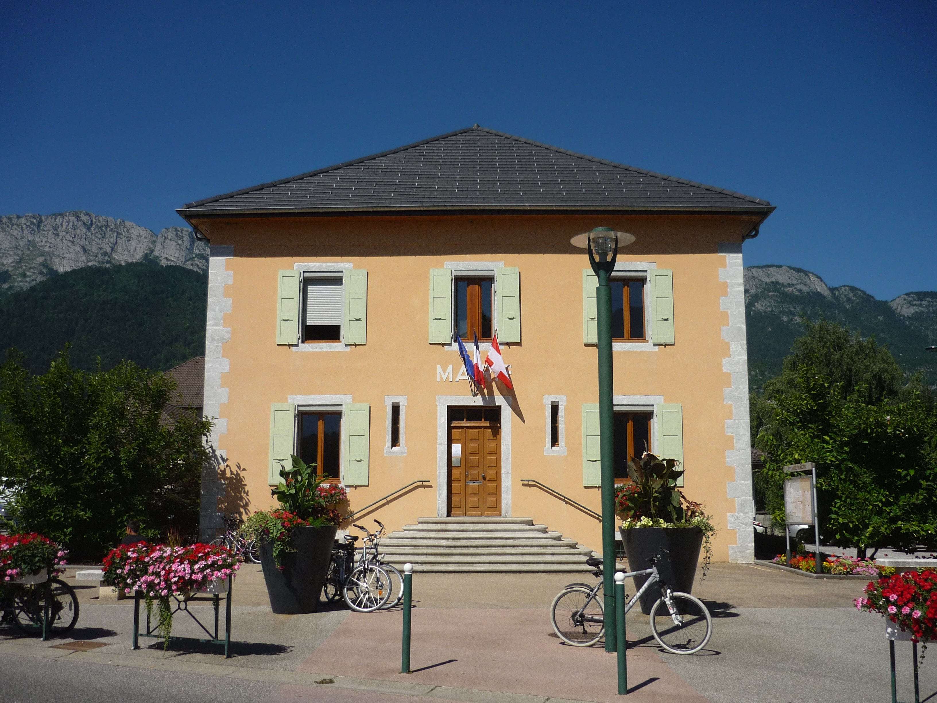 Doussard, Haute-Savoie, France